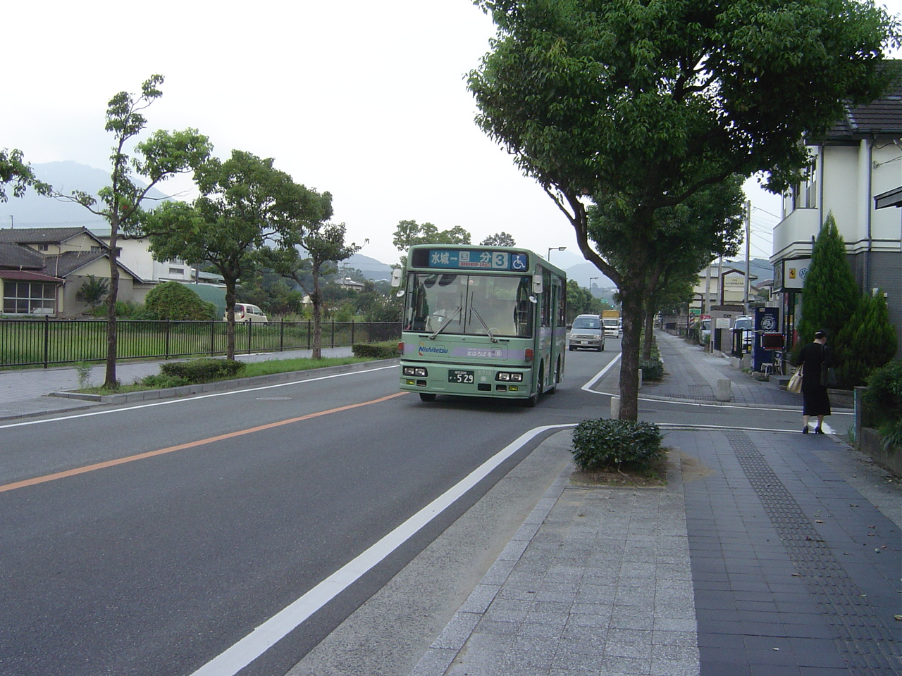 Dazaifu City Community Bus "Mahoroba Go"